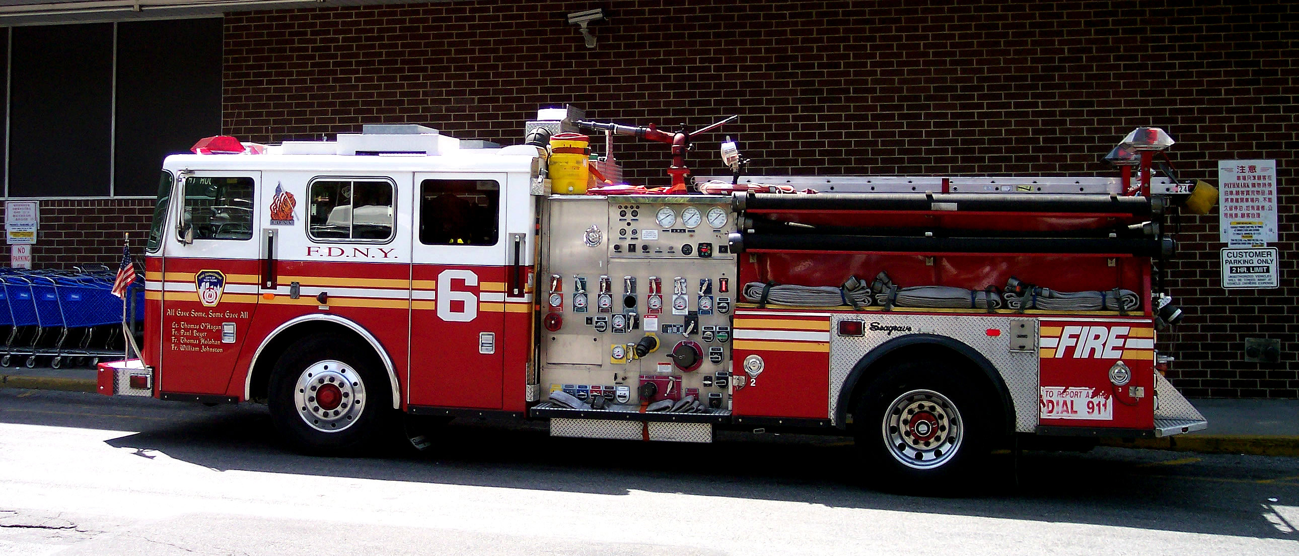 Fire engine of the New York City Fire Department. Members of the unit who died in the September 11, 2001 attacks are commemorated on the side of the truck.